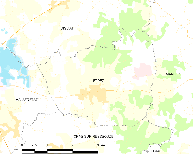 Map of French commune: Étrez Map commune FR insee code 01154.png